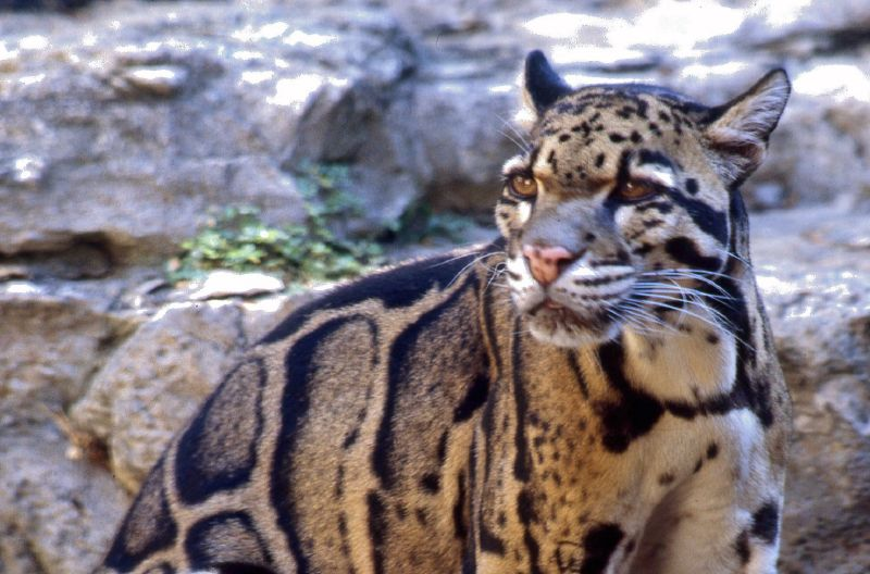 A clouded leopard (Neofelis nebulosa) in San Antonio Zoo